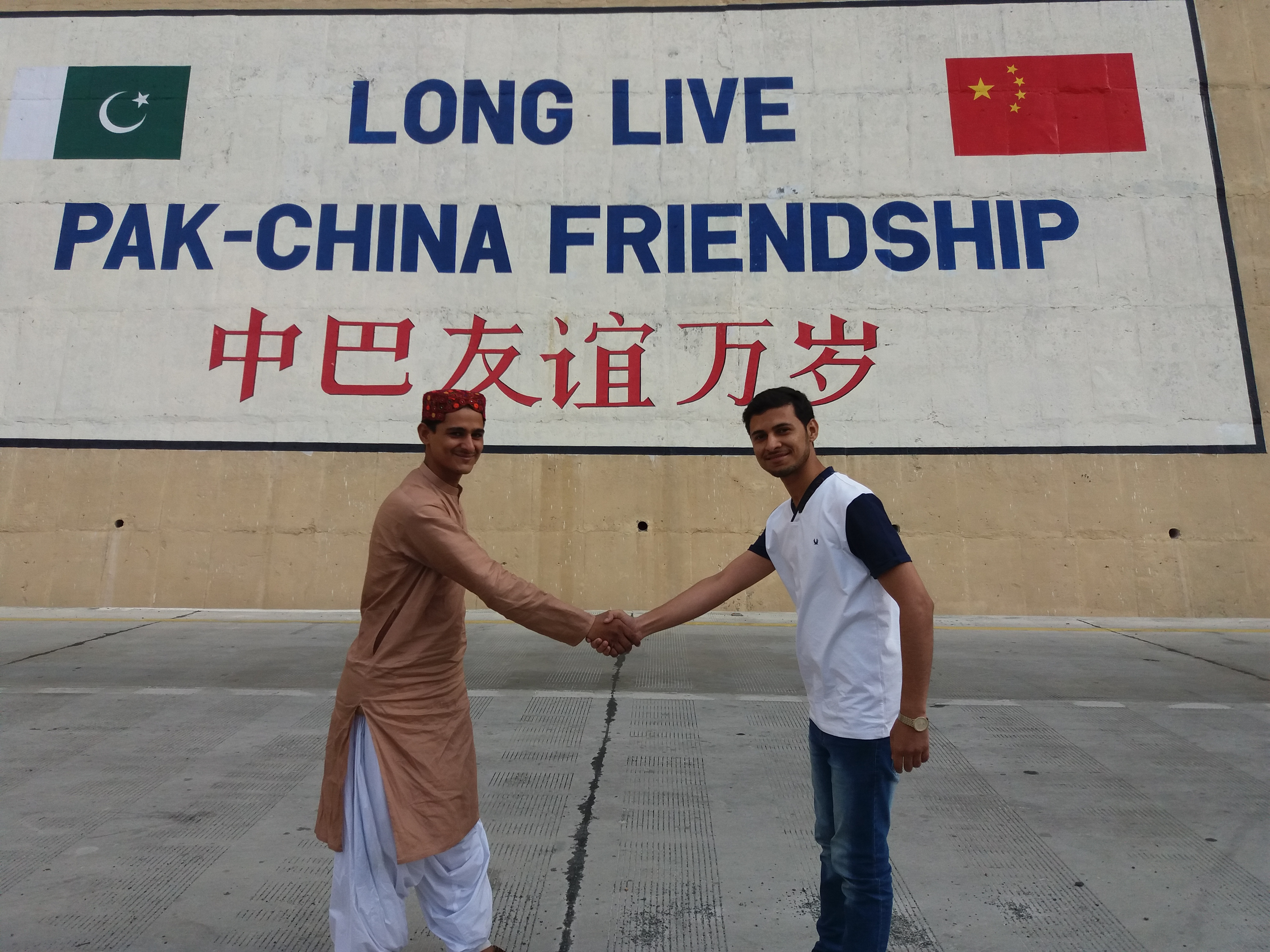 China–Pakistan friendship monument on the way to the two countries' border, along the Khunjerab Pass near Beautiful Tunnels at Atabad Lake, Hunza Valley.